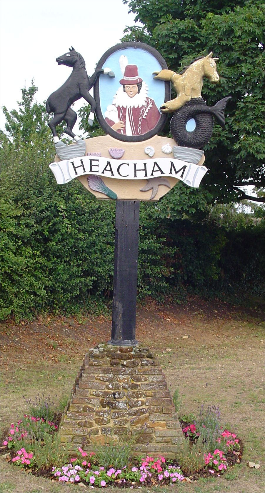 Signpost in Heacham, Norfolk The village sign depicts Pocahontas